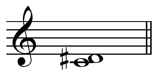 Augmented second on C = D♯. Just: 75:64 = 274.58 cents. Equal-tempered: 23/12:1 = 300 cents.